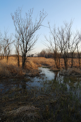 The Haskell-Baker Wetlands, March 2009.